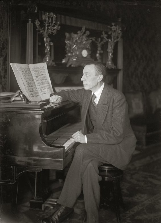 Sergei Rachmaninoff, photo portrait, seated at grand piano.